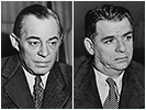 Richard Rodgers and Oscar Hammerstein II